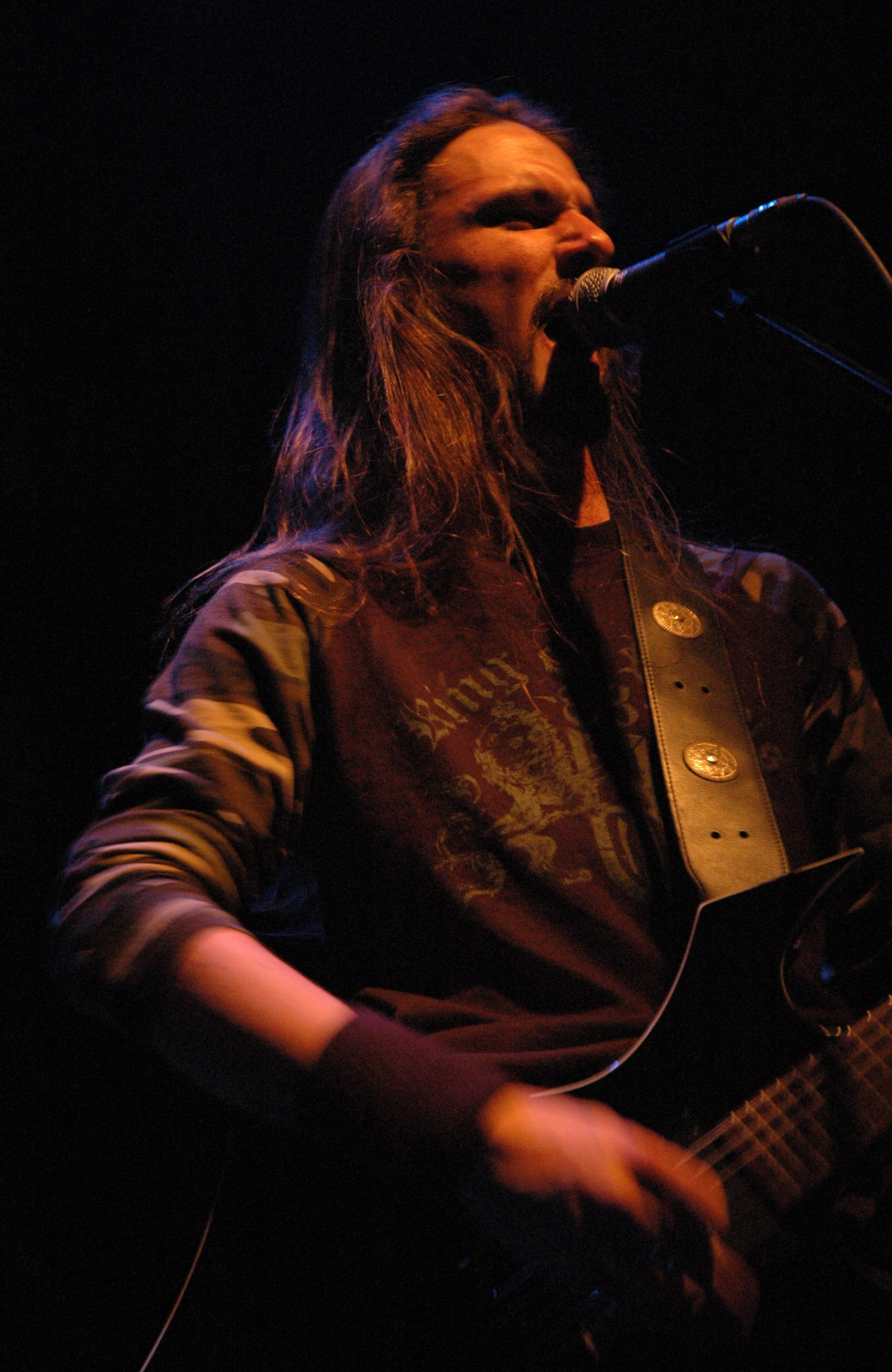 Maels from StrommoussHeld at a concert in Rotunda Club in Cracow, Poland